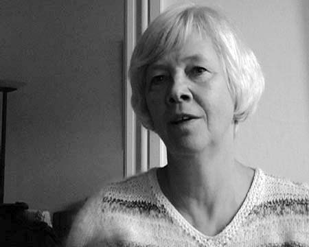 Top candidates for the Danish Political Party Alternativet as elected at the congress september 13, 2014